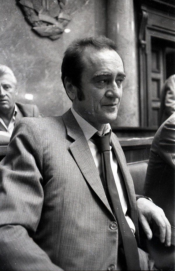 Batrić Jovanović is a Serb politician and author from Montenegro. He represented Montenegro in the Socialist Federal Republic of Yugoslavia parliament. Српски (ћирилица): Љубодраг Ђурић (Ужице, 25. јул 1917 — Београд, 10. јул 1988), учесник Народноослободилачке борбе, генерал-мајор ЈНА и друштвено-политички радник СФРЈ и СР Србије.